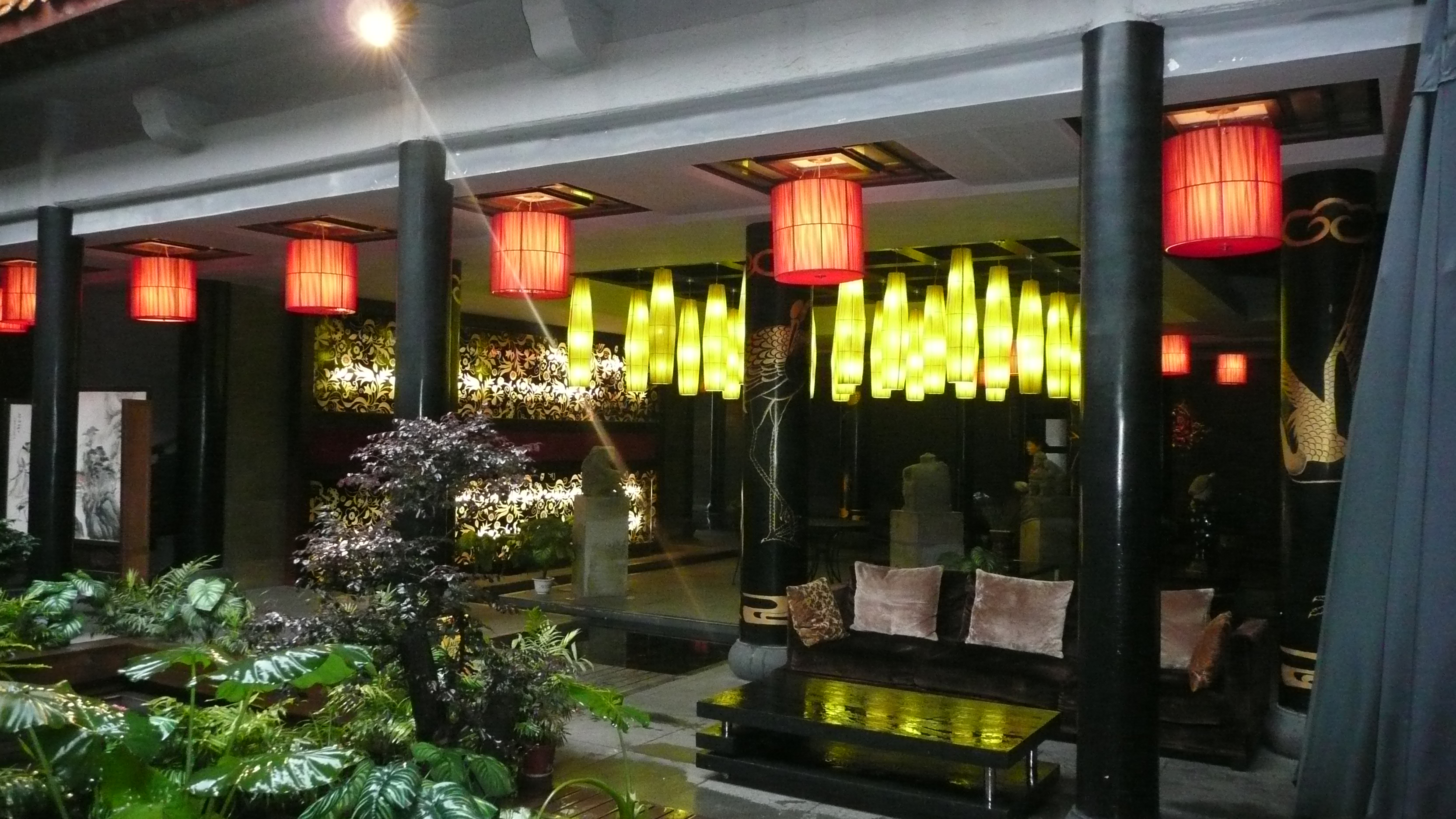 Xihulou - West Lake restaurant in Changsha, the largest restaurant in Asia and the biggest Chinese restaurant in the world